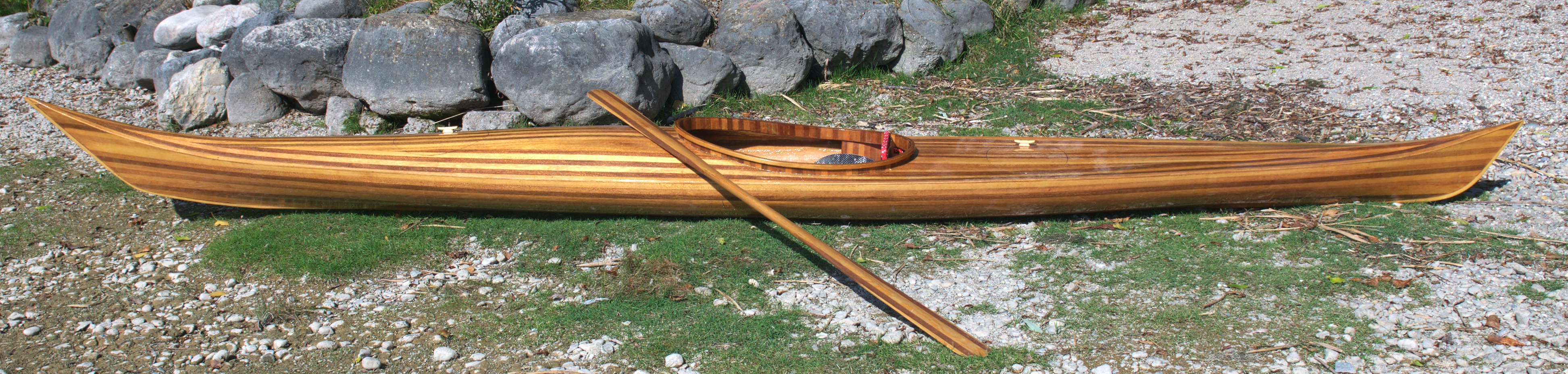 Kayak, wood, strip-built, glass fibre reinforced cover, length 5.3m, width 56cm, Meranti-wood